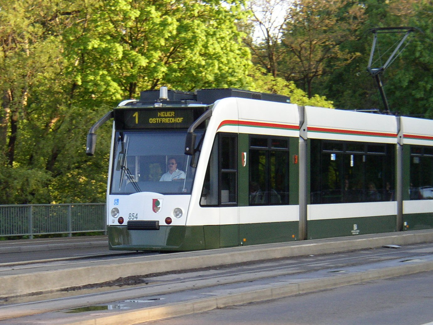 Tram of Line 1 (Göggingen–Neuer Ostfriedhof) passing Ulrichs bridge in Augsburg, Germany. Siemens Combino tram (#854).